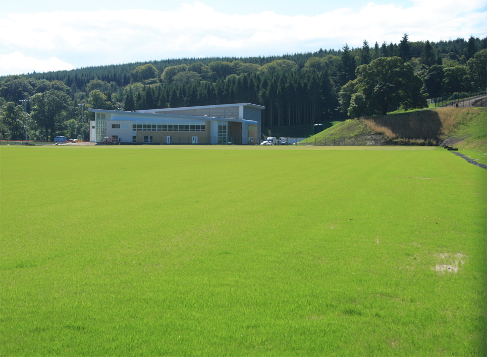 Lennoxtown Training Centre: Setting beneath Campsie Fell.